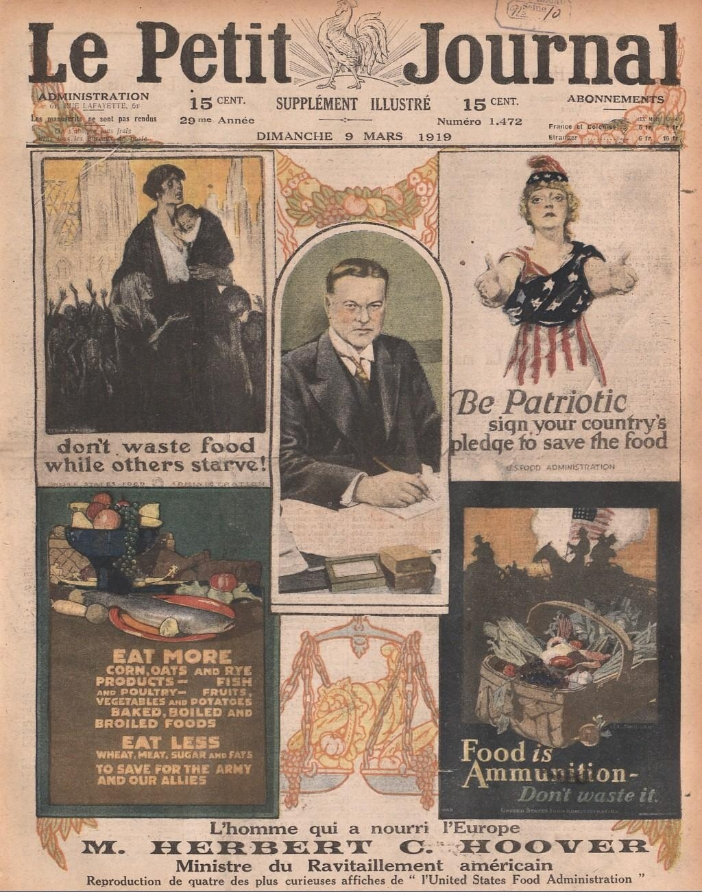 Herbert C. Hoover. The man who has fed Europe. Minister of US Supply.